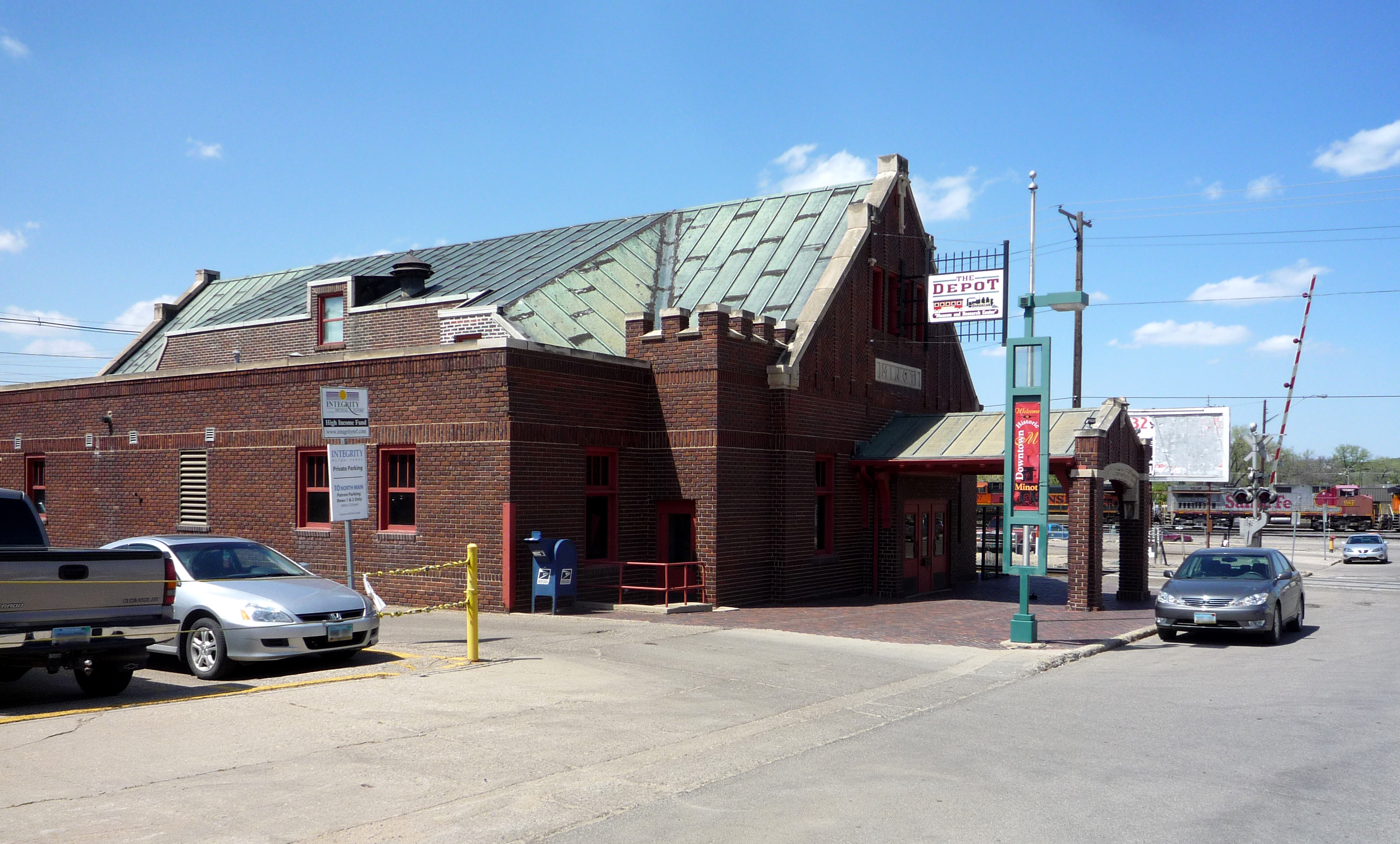 The Old Soo Depot Transportation Museum, housed in the historic Soo Line depot (built 1912), located in historic downtown Minot, North Dakota, USA. The Depot once served the Minneapolis, St. Paul and Sault Ste. Marie Railroad, which is now part of the Canadian Pacific Railway.